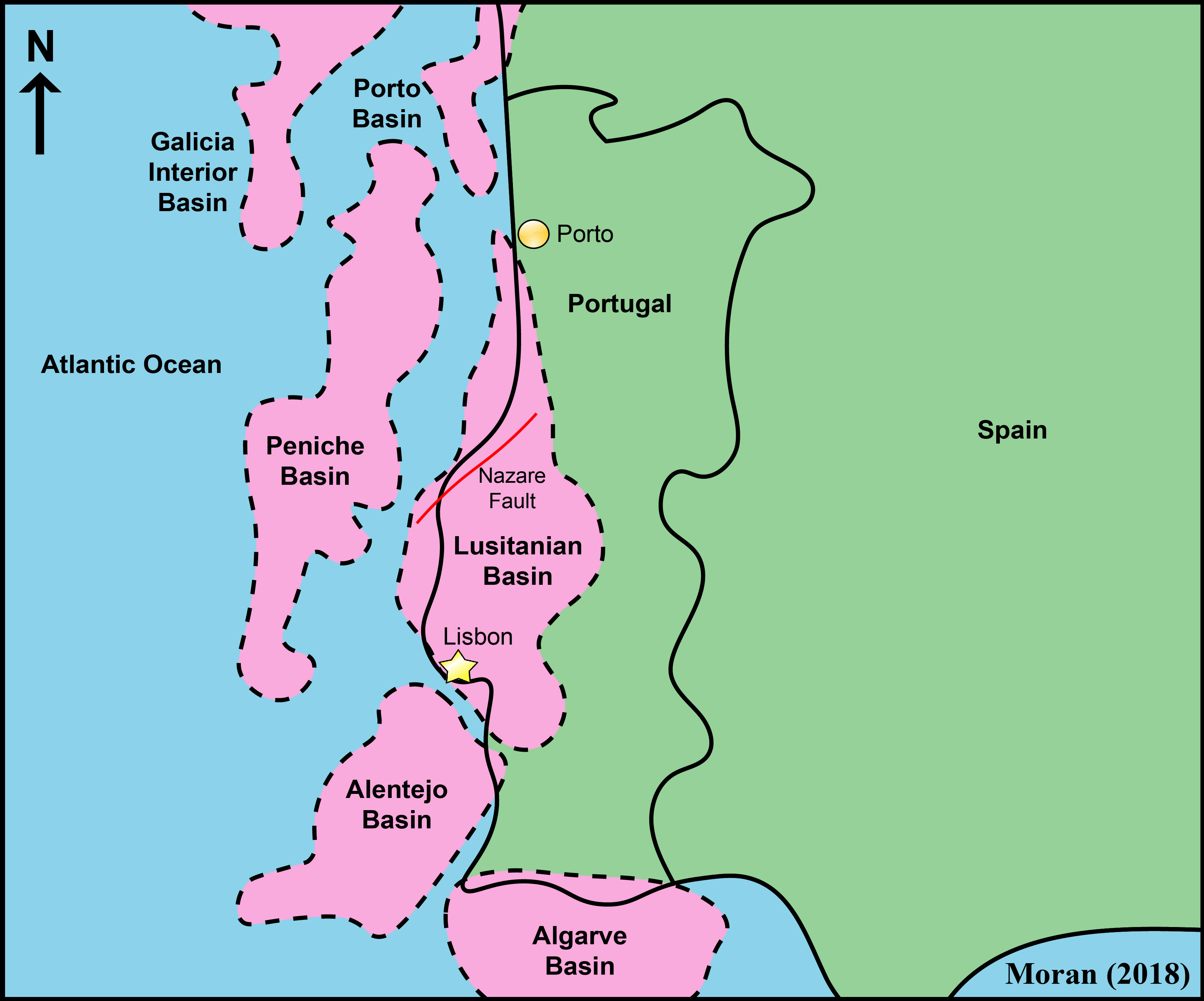 Figure of surrounding structures